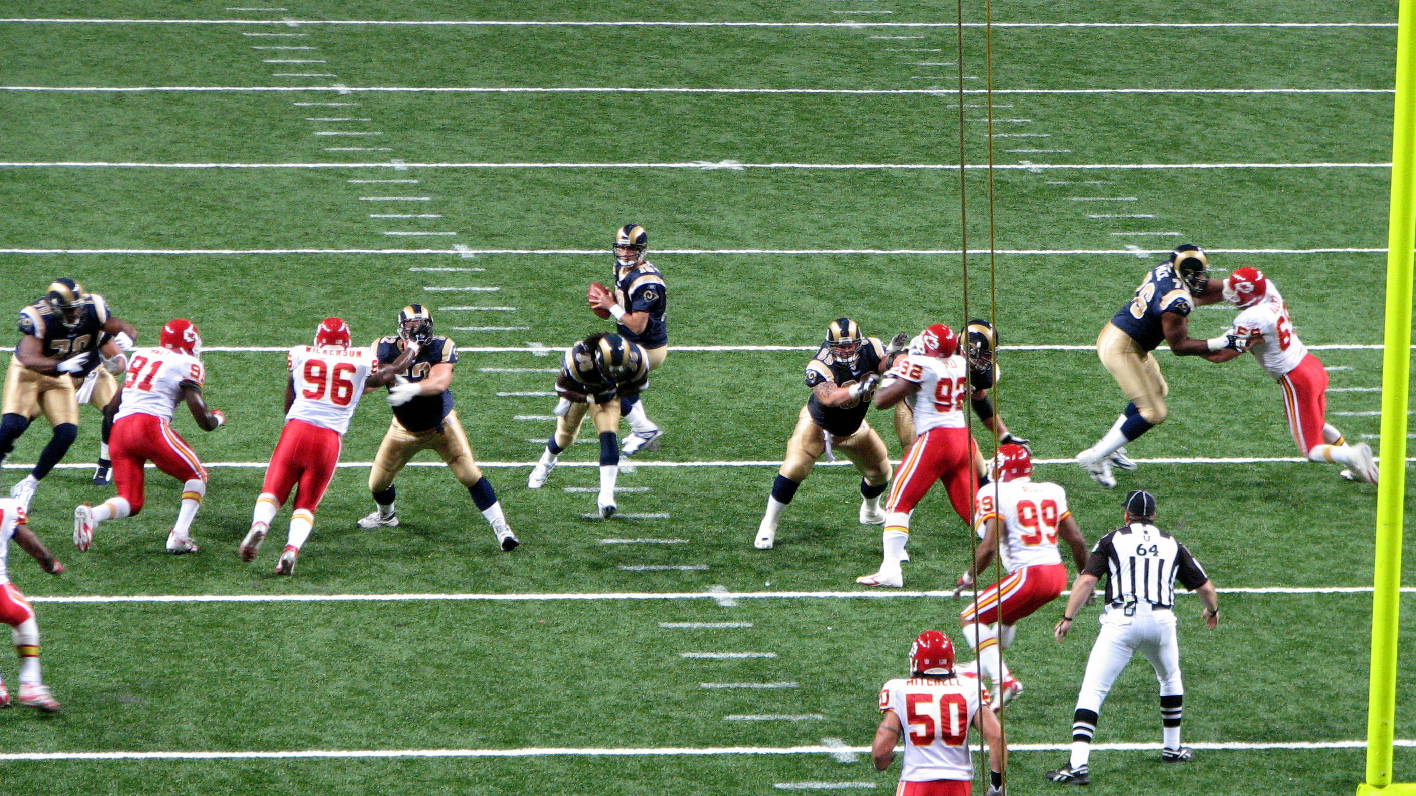 An action during the match Kansas City Chiefs at St. Louis Rams 2006